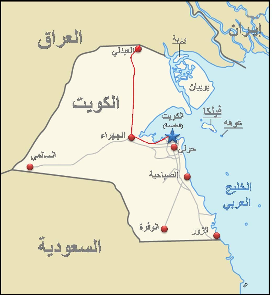 Description Highway of Death. Map of Kuwait (Lithuanian version) Date22 March 2007Sourcebased on Kuwait ID.PNGAuthorarzPermission(Reusing this file) Public Highway of Death. Map of Kuwait (Lithuanian version)